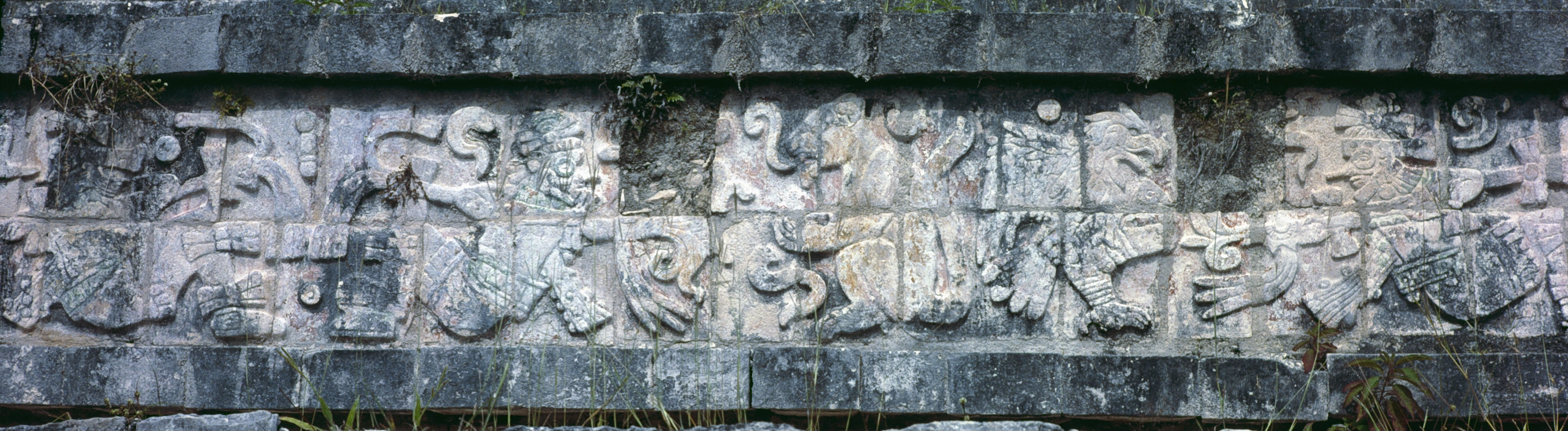 Chichen Itza, Yucatan, Mexico: Templo de los Guerreros, southern frieze of the pyramid